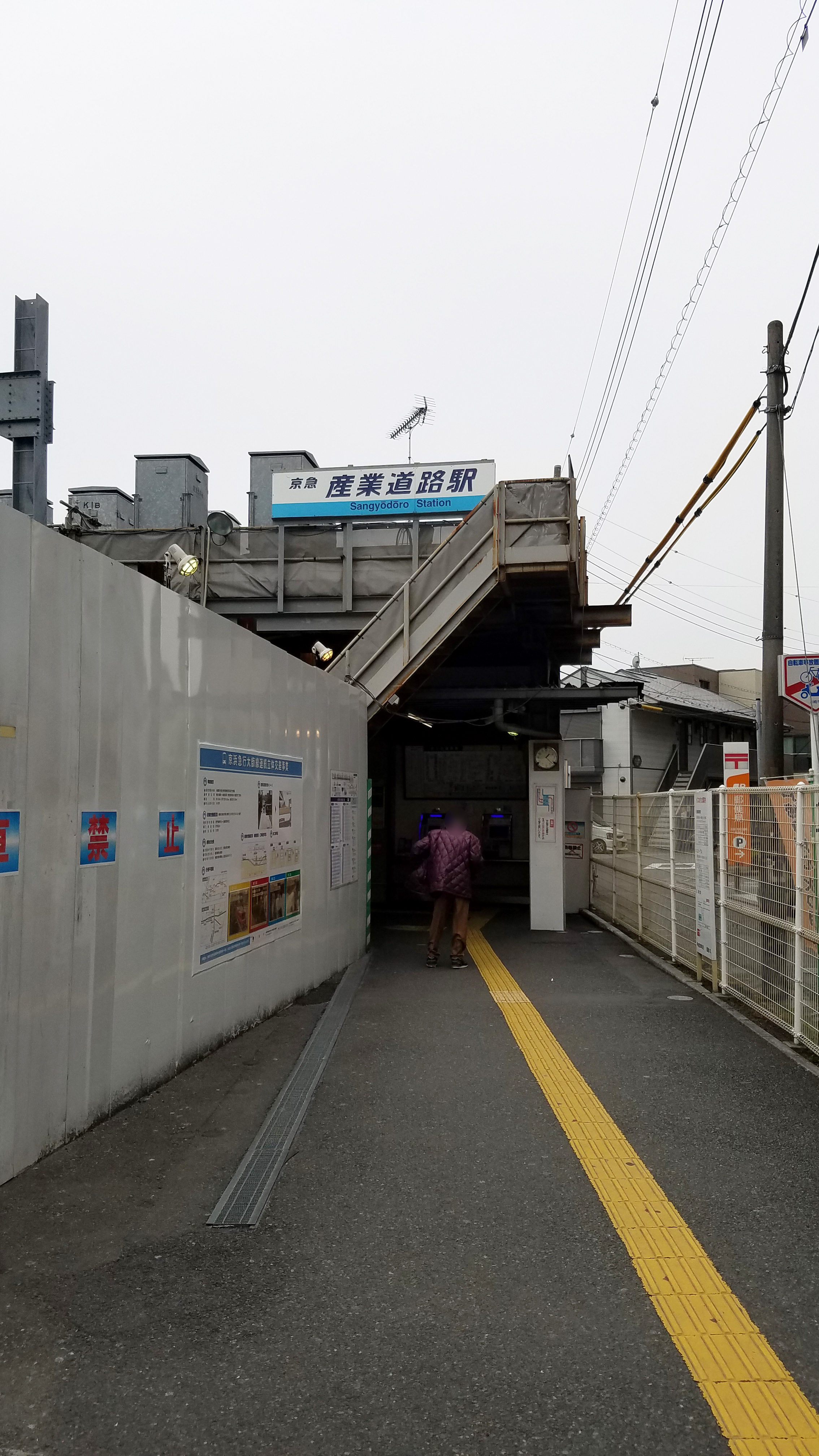 The entrance to Sangyōdōro Station on the Keikyū Daishi Line in Kawasaki ward, Kawasaki city, Japan